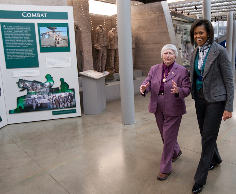 Retired Air Force Brig. Gen. Wilma Vaught, president of the Women’s Memorial Foundation, takes first lady Michelle Obama on a tour of Arlington National Cemetery's Women in Military Service for America Memorial Center in Arlington, Va., on March 3, 2009, during an event honoring Women's History Month and military families.